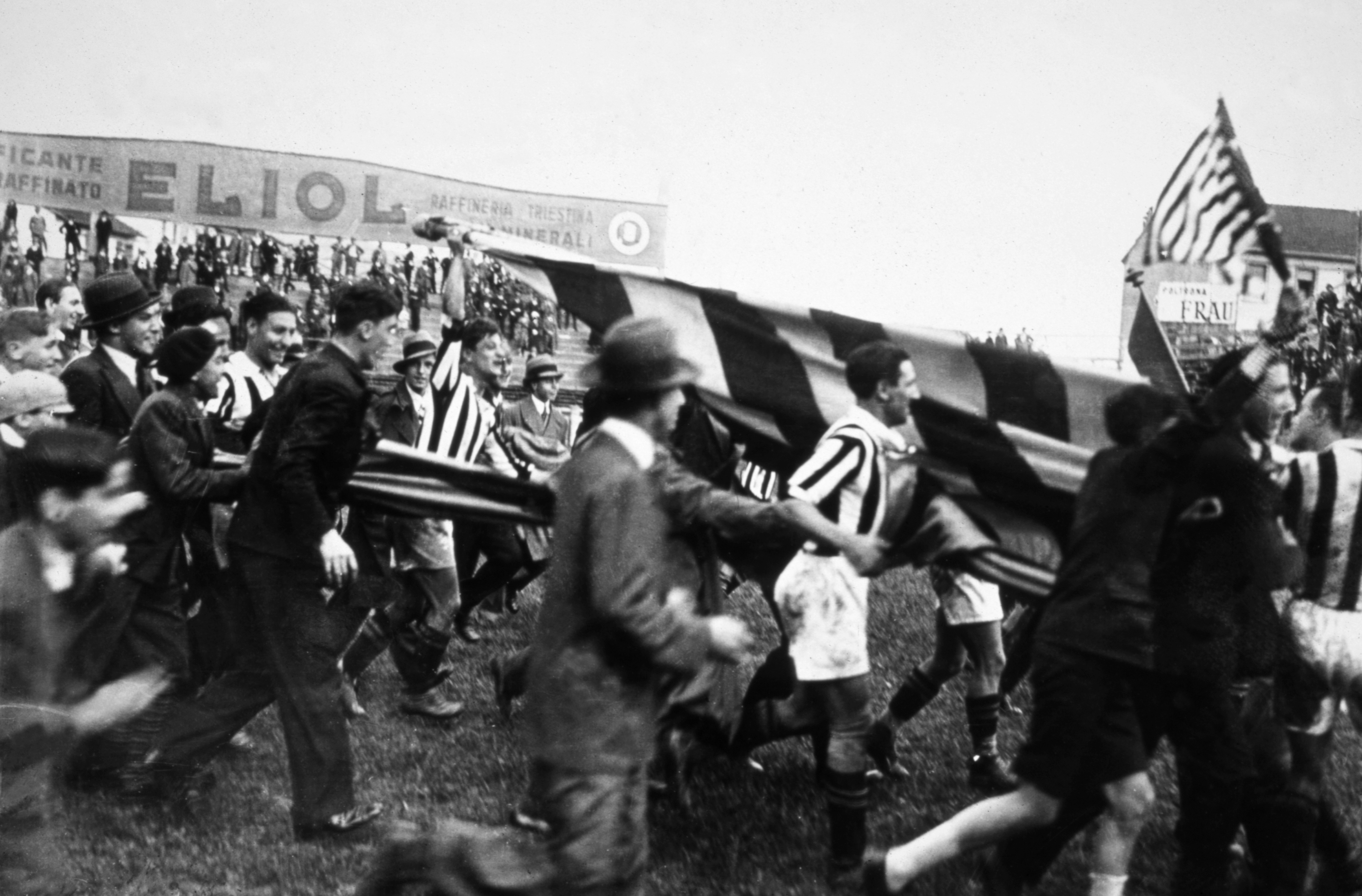 Turin, Campo Juventus ("Juventus Ground"), May 29, 1932. At the end of the home victory versus F.B.C. Brescia (3-0) valid for the 30th round of the Italian Championship 1931–32 Serie A, F.B.C. Juventus' footballers and supporters celebrate the mathematic victory of the 4th Italian title in the club history — and the 2nd of the Juventus' Quinquennio d'oro ("Five Golden Years", 1930–35).